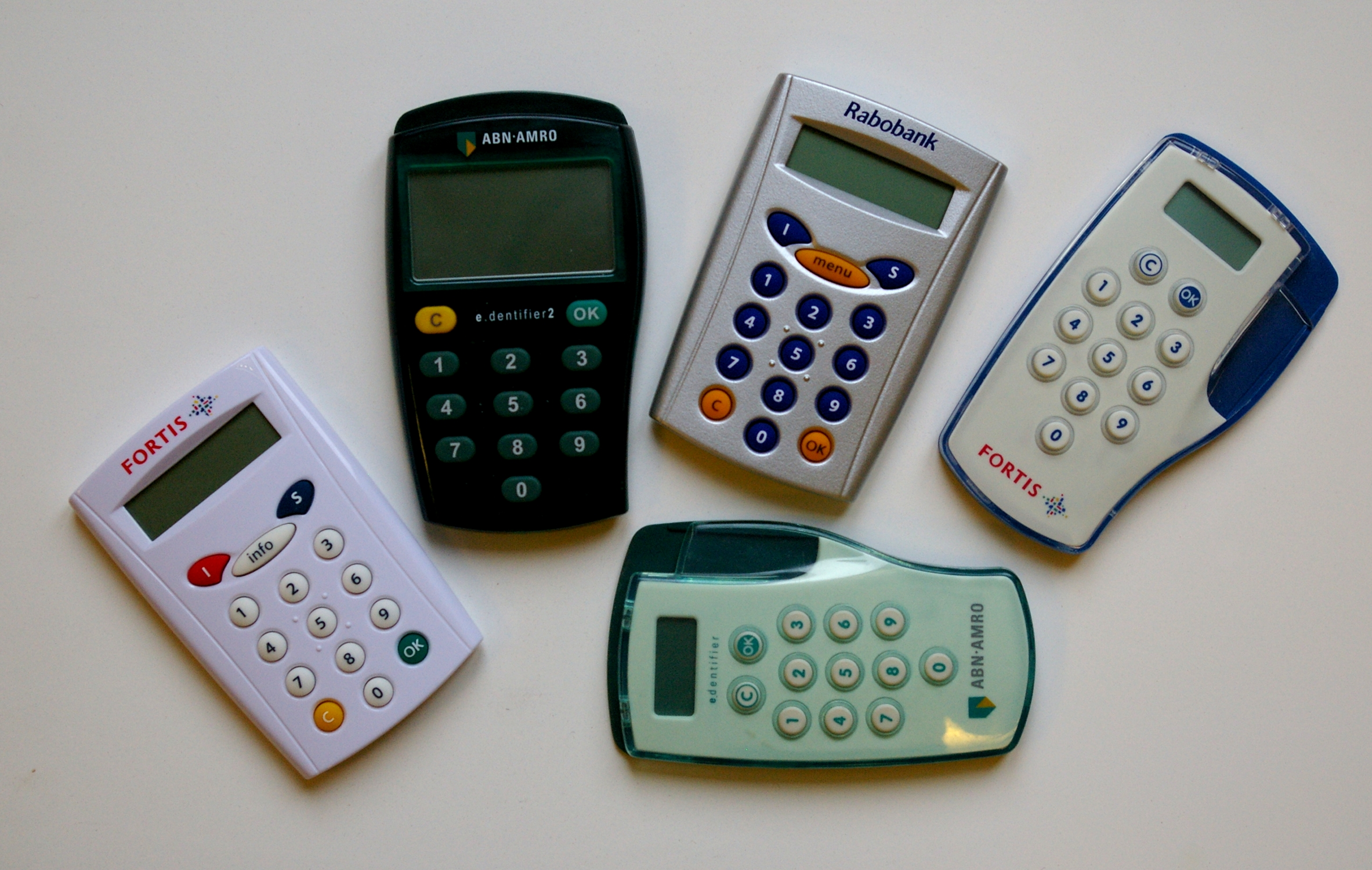 Card readers of Dutch banks